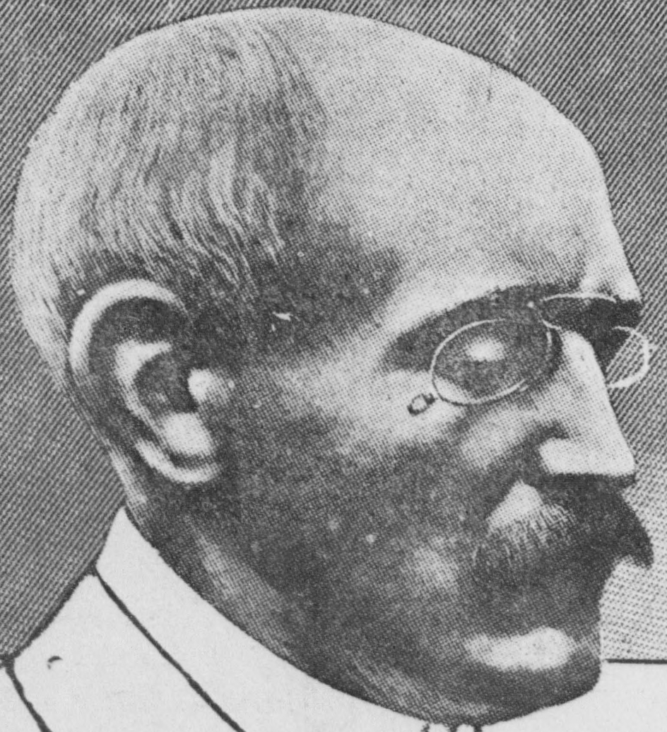 Alfred Dreyfus in approximately 1903